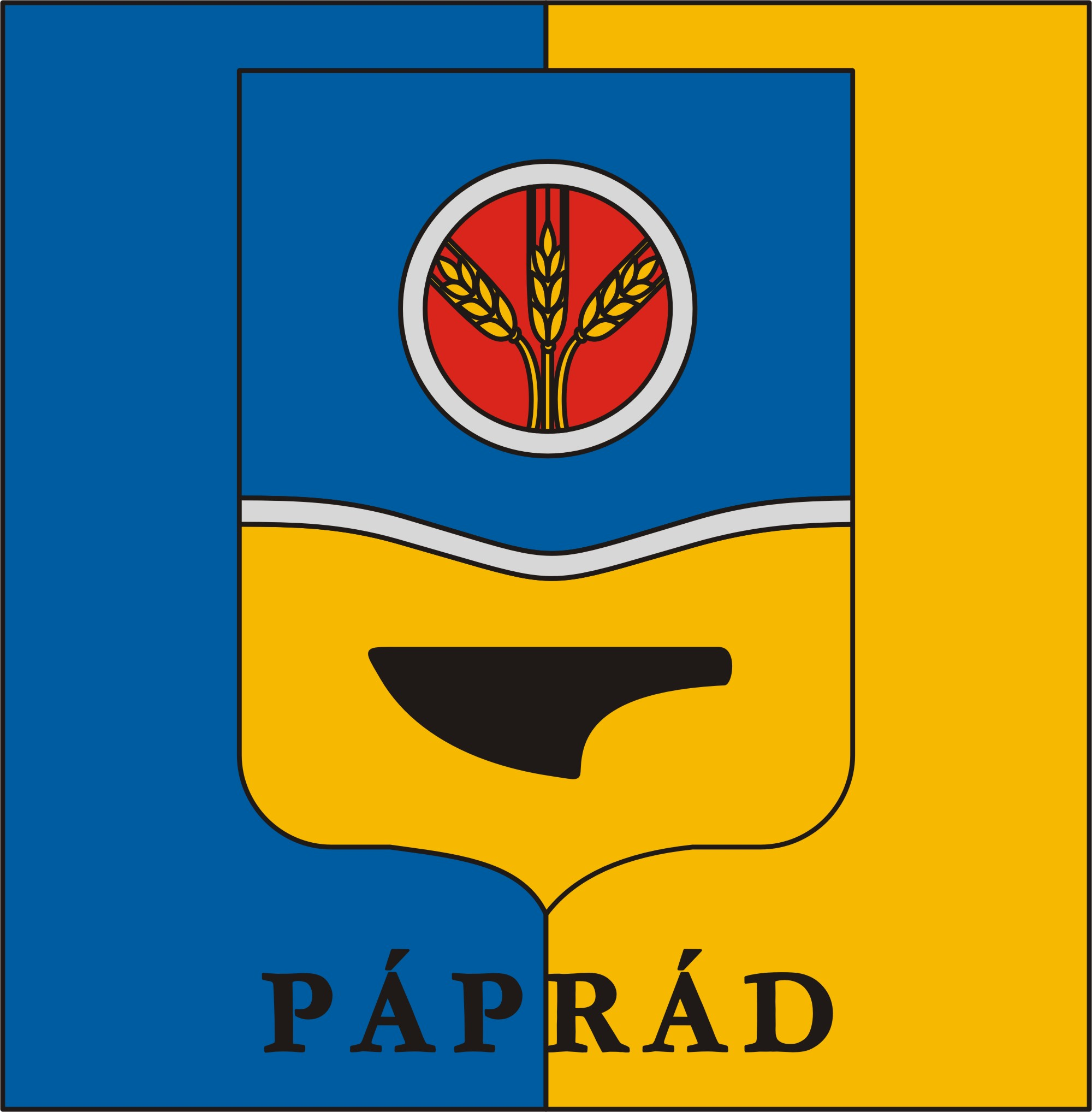 Coat of arms of Páprád, Hungary